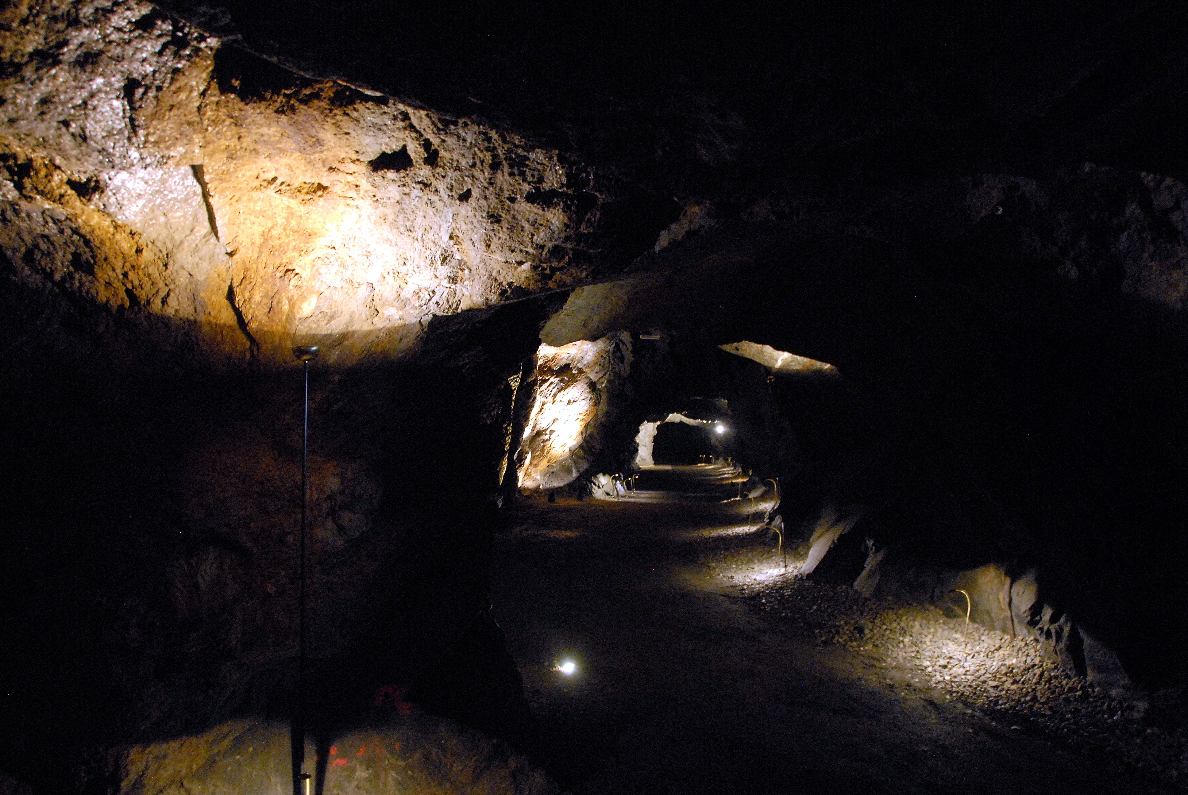 Mine gallery in the mining museum "Granatium" at Radenthein, district Spittal an der Drau, Carinthia, Austria